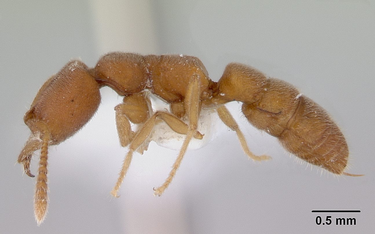 Profile view of ant Amblyopone celata specimen casent0172191.